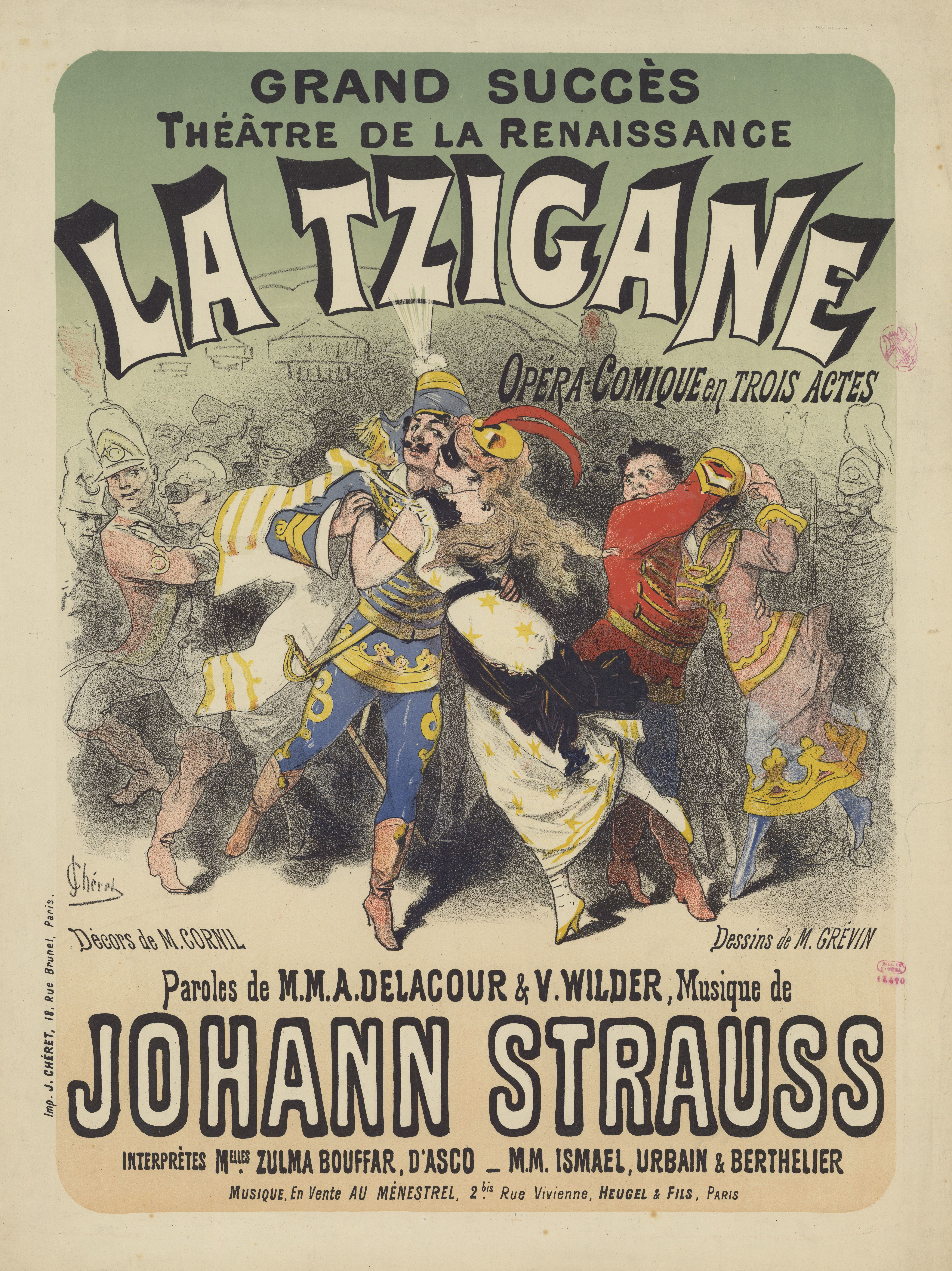 Poster by Jules Chéret for Johann Strauss' 1877 opérette La Tzigane at the Théâtre de la Renaissance in Paris (see talk page for more details); stone lithograph 60 × 80 cm.